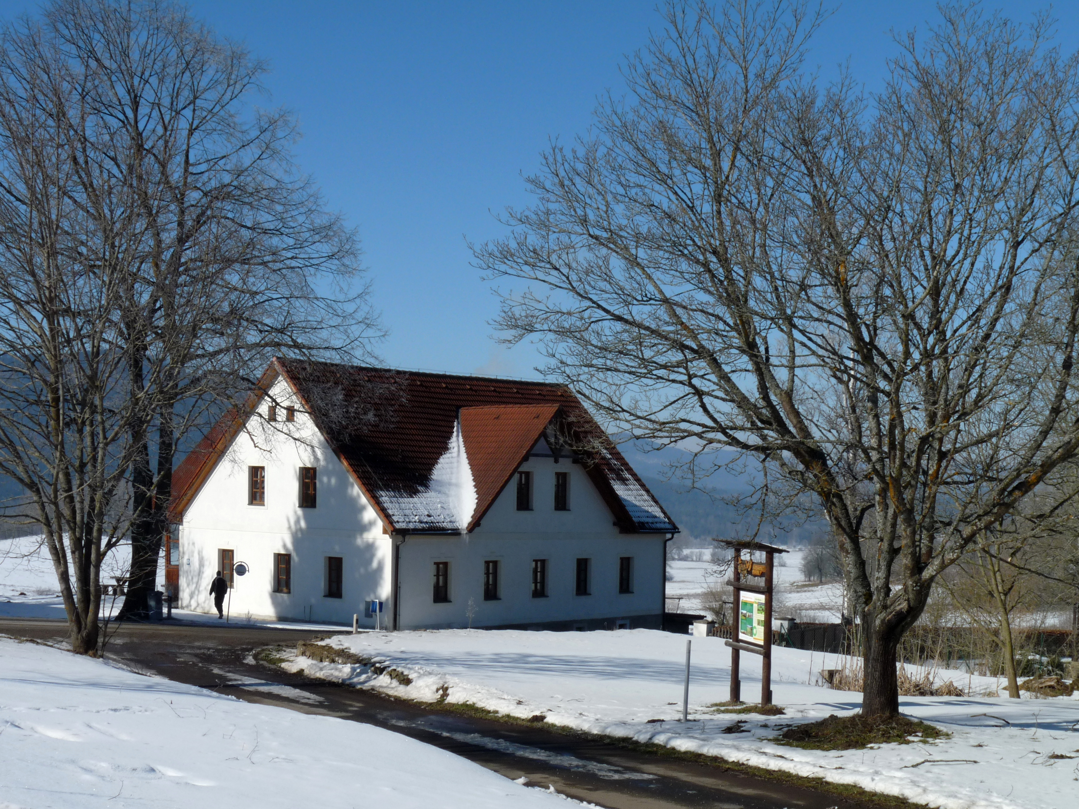 House No 9 in the village of Slunečná north of the munucipality of Želnava, Prachatice District, Czech Republic.